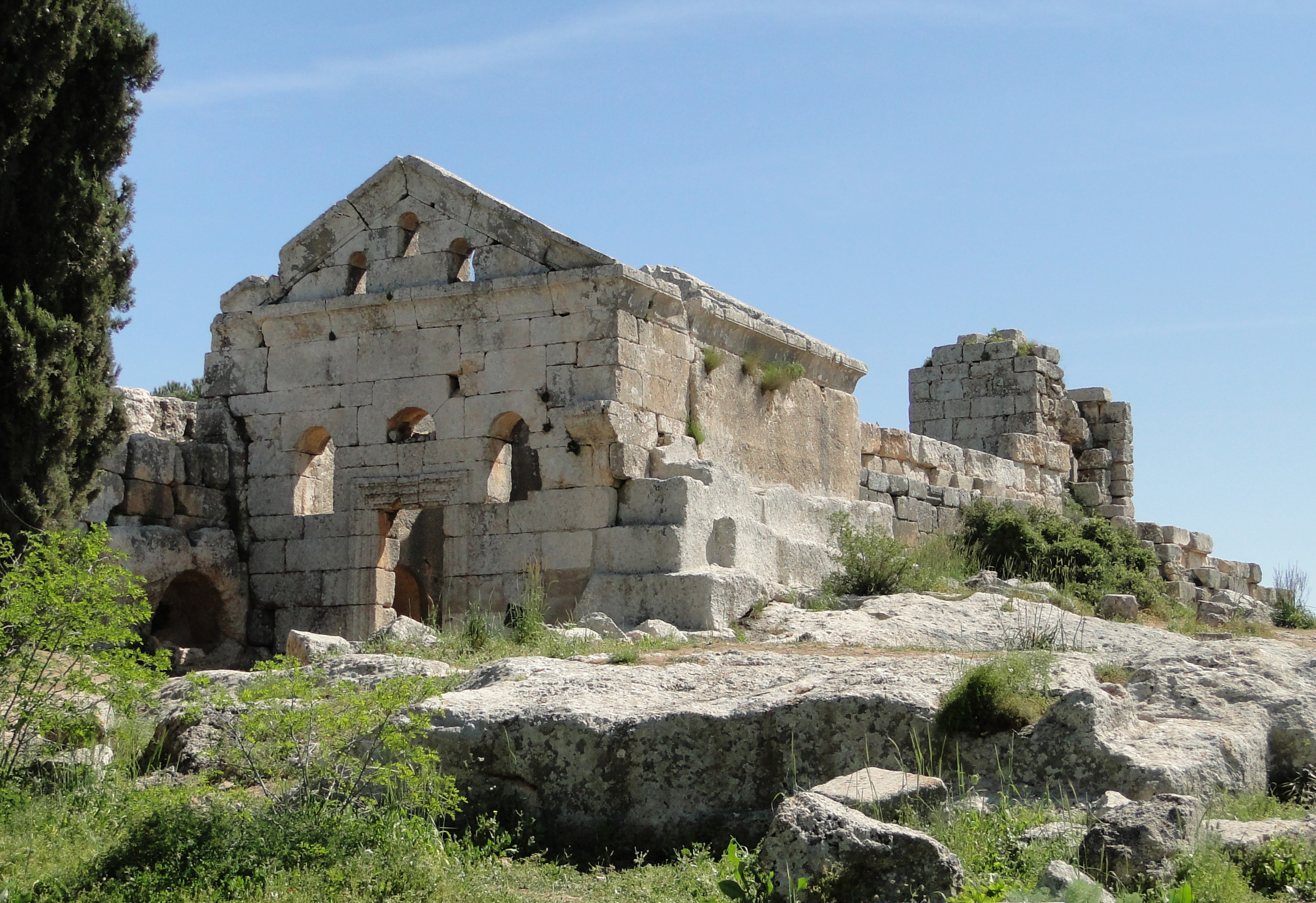 Funeral chapel containing graves of monks near the Church of Saint Simeon Stylites, Syria